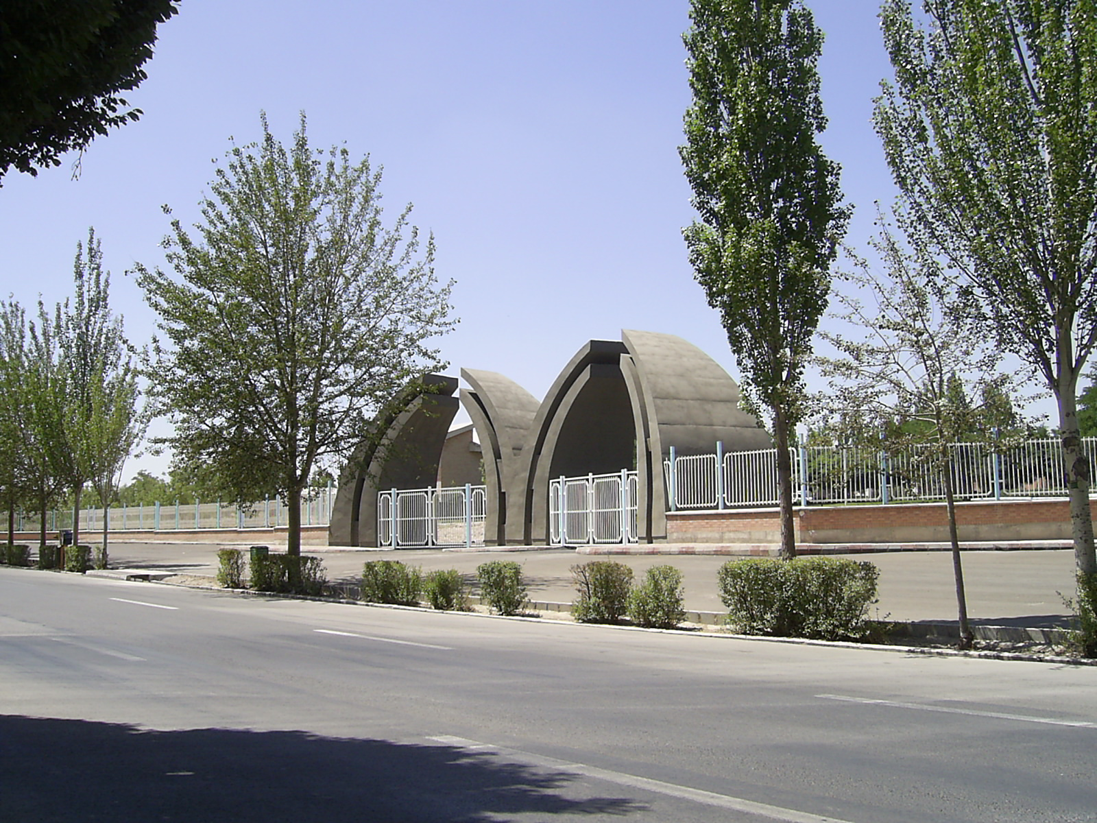 View of the entrance of Mohaghegh Ardabili University